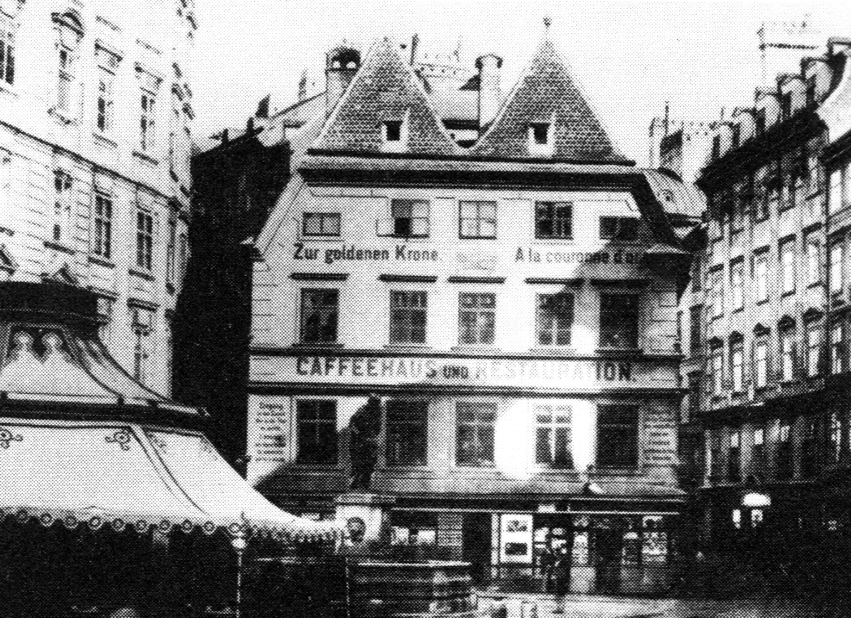 Elefantenhaus, Graben, Vienna (destroyed 1866)